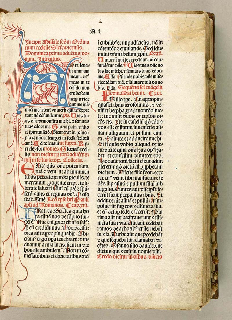 opening page of the Missale Slesvicense, the first printed missal for the diocese of Schleswig/Slesvig; the second book printed in Denmark and the first one printed in Schleswig-Holstein